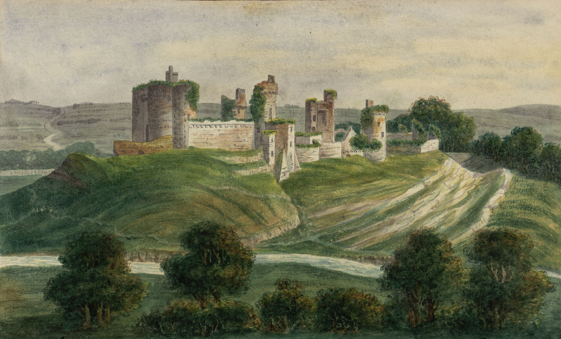 Numerous drawings and landscapes of villages, towns and landmarks in Wales and Ireland. By French artist Alphonse Dousseau.